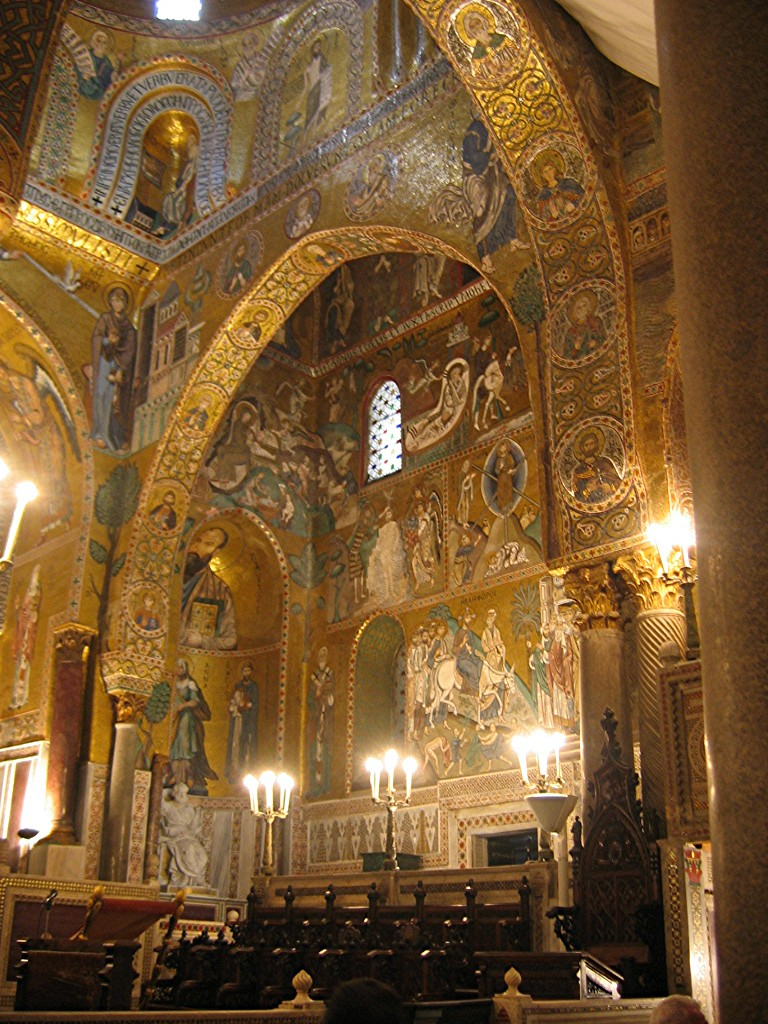 Palatine Chapel, Royal Palace of Palermo, Sicily, Italy